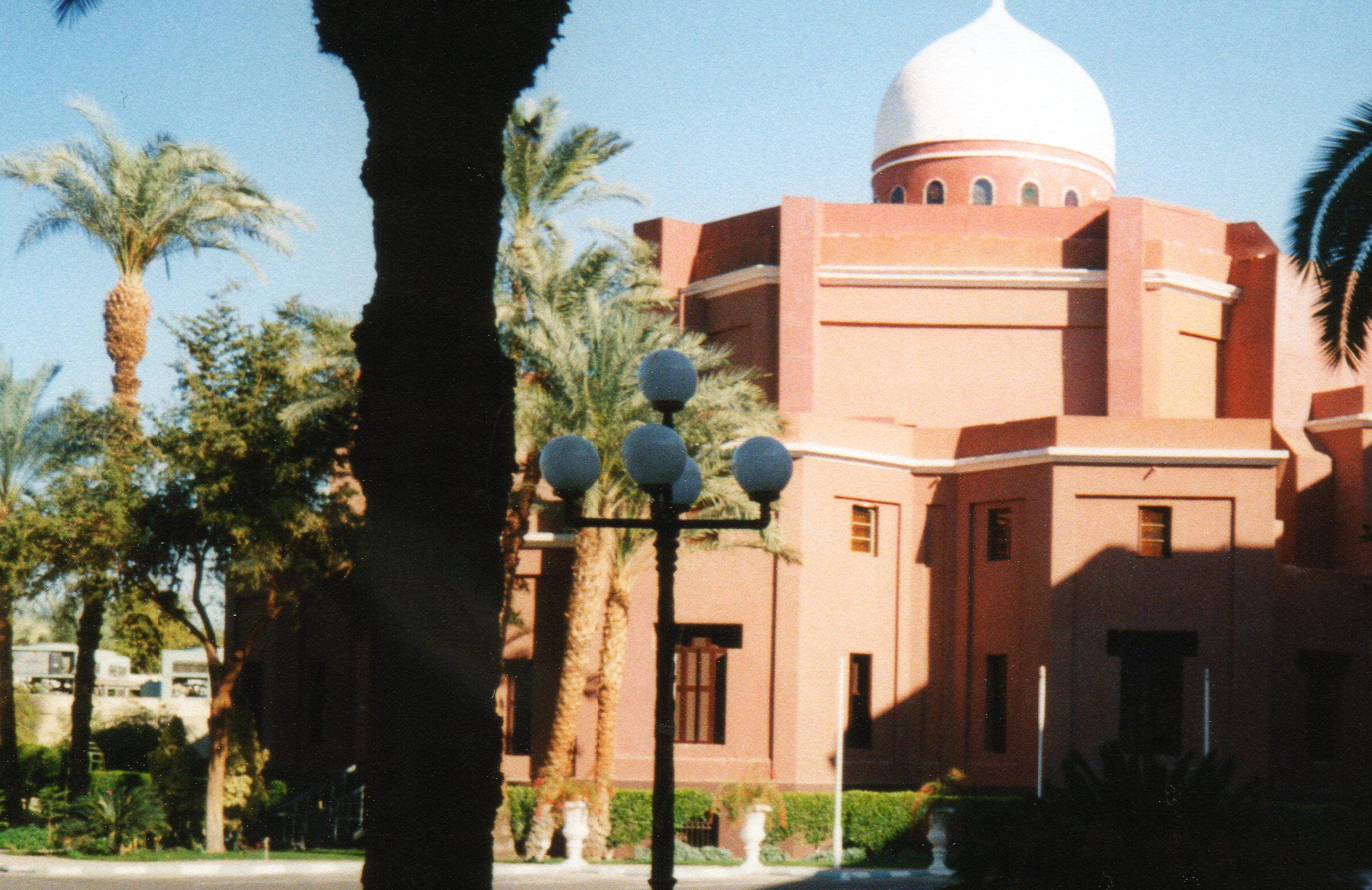 The dining room of the Old Cataract, a well-known hotel in Aswan, Egypt - outdoor.